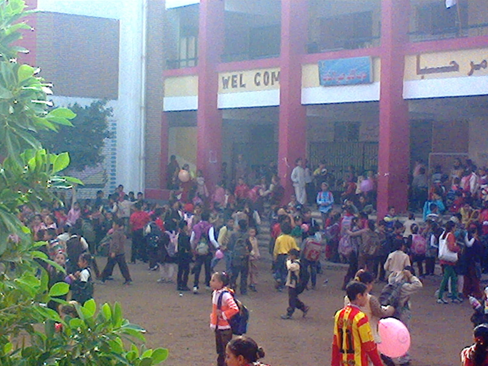 Samannoud City, Samannoud, Gharbia Governorate, Egypt